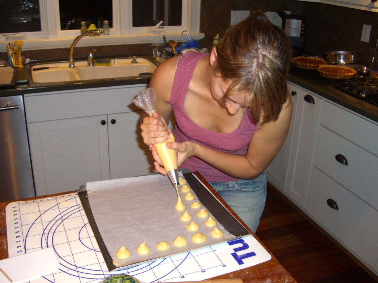 baking cream puffs from pate choux